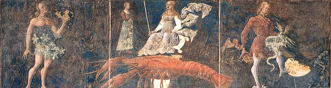 various Ferrarese artist Allegory of June Fresco Palazzo Schifanoia, Ferrara